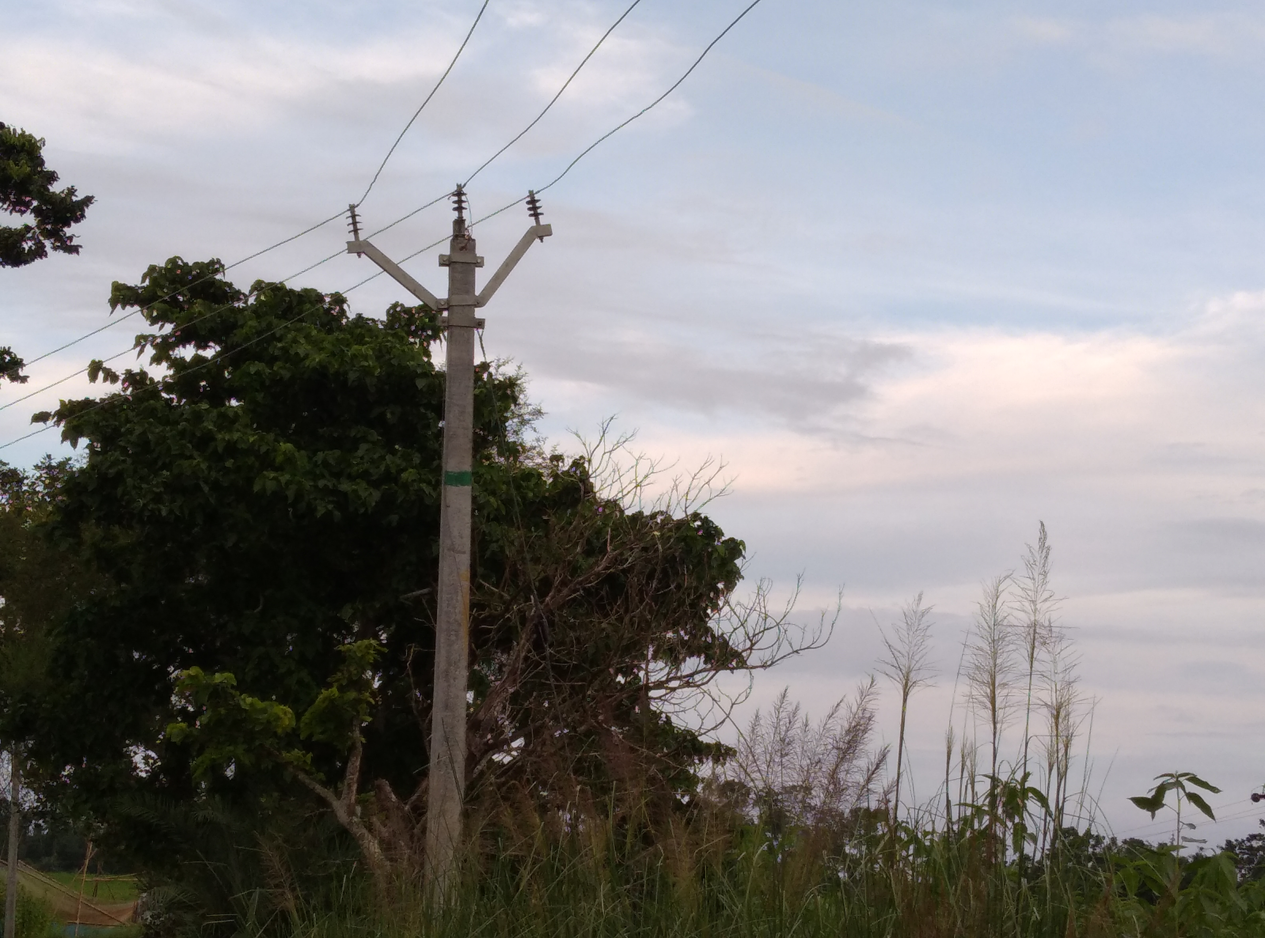 Crossing electricity pylon 11 kV